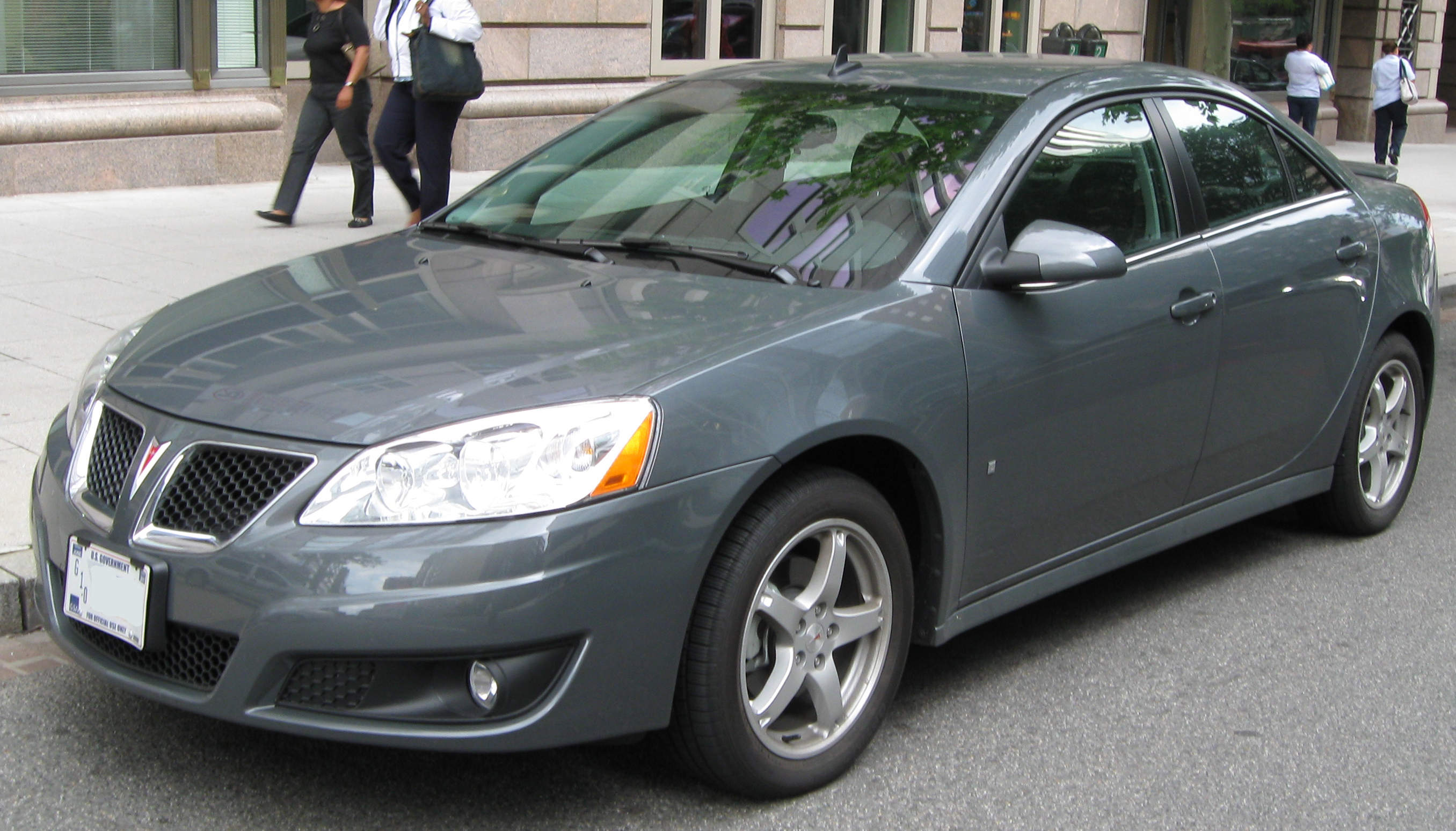 2009.5 Pontiac G6 photographed in Washington, D.C., USA.